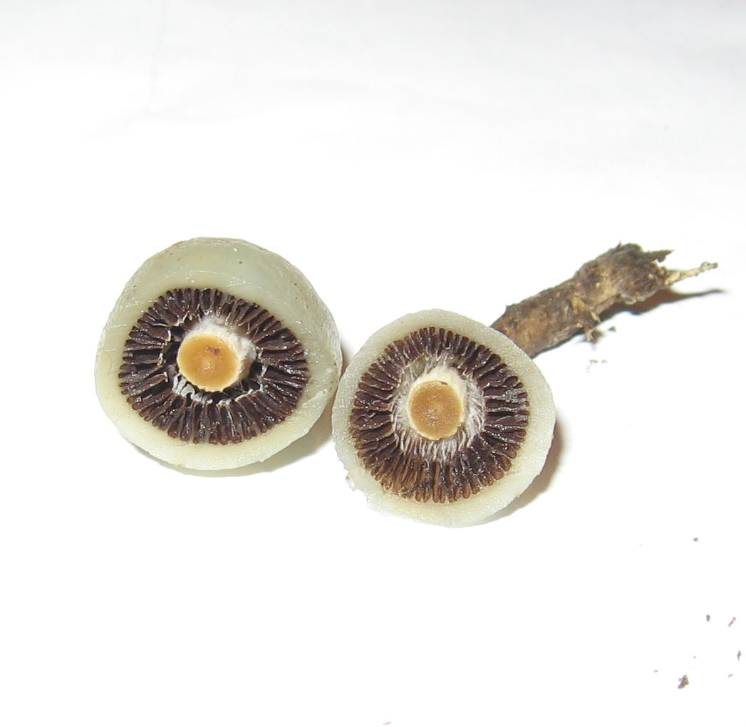 A cross section of the hallucinogenic mushroom Weraroa novae-zealandia